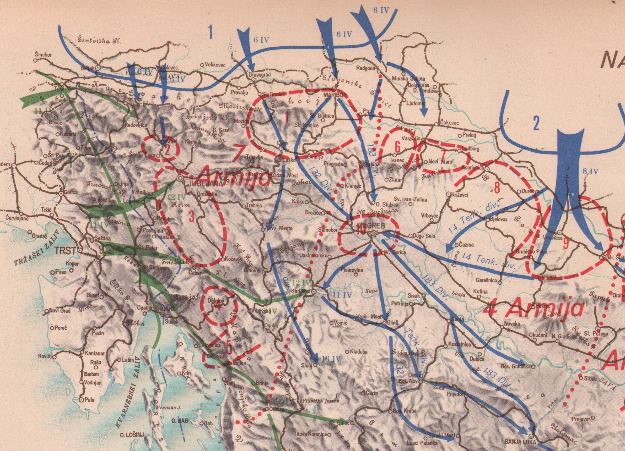 Crop of map describing the Axis invasion of Yugoslavia